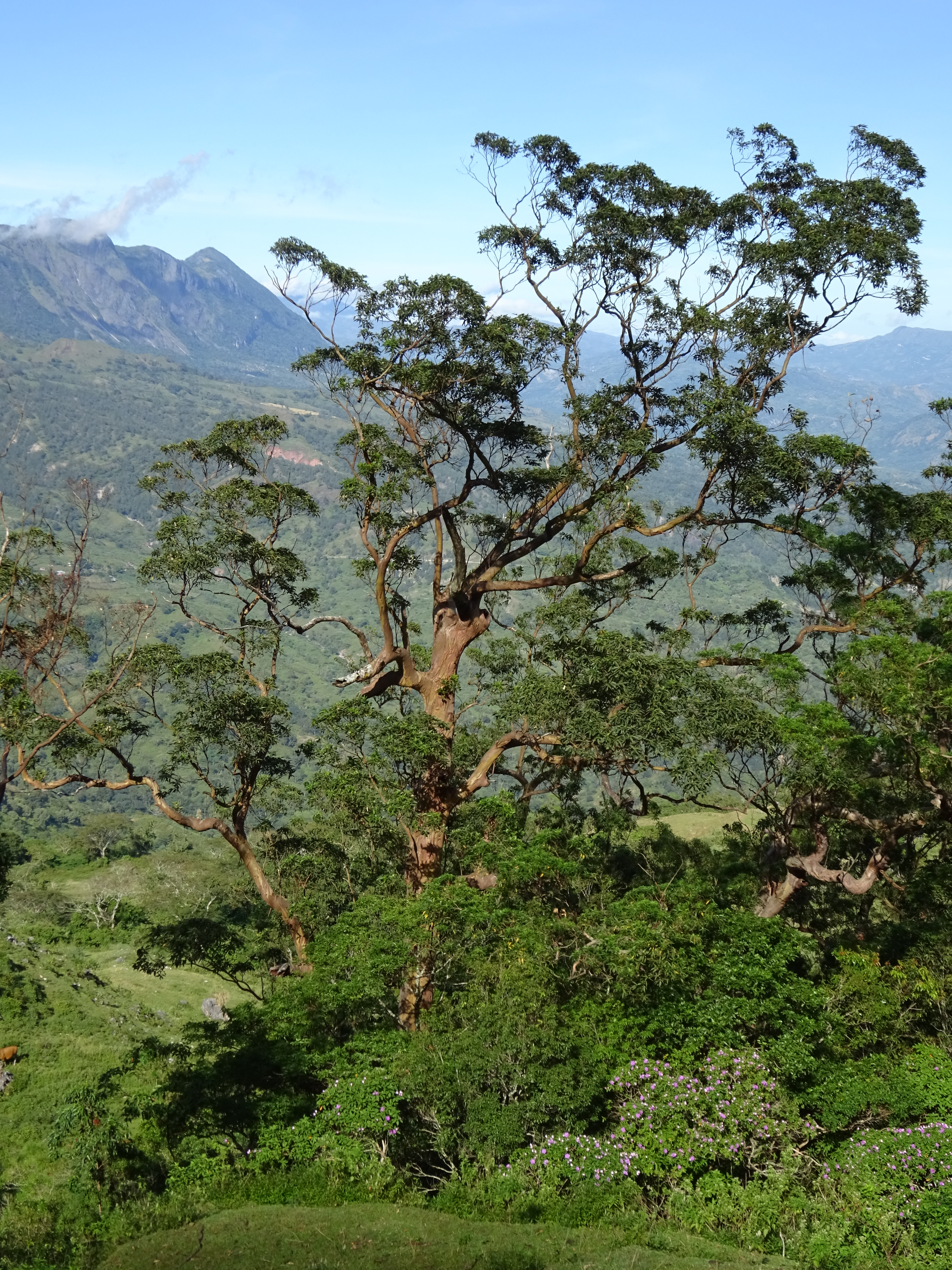 A view to the west from the slopes of Mt Coelaco, at around 1,100 m, with endemic Eucalyptus urophylla forest on the slopes